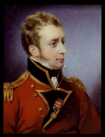 Miniature portrait of Hercules Robert Pakenham, made by William Egley (British, 1798 - 1870)